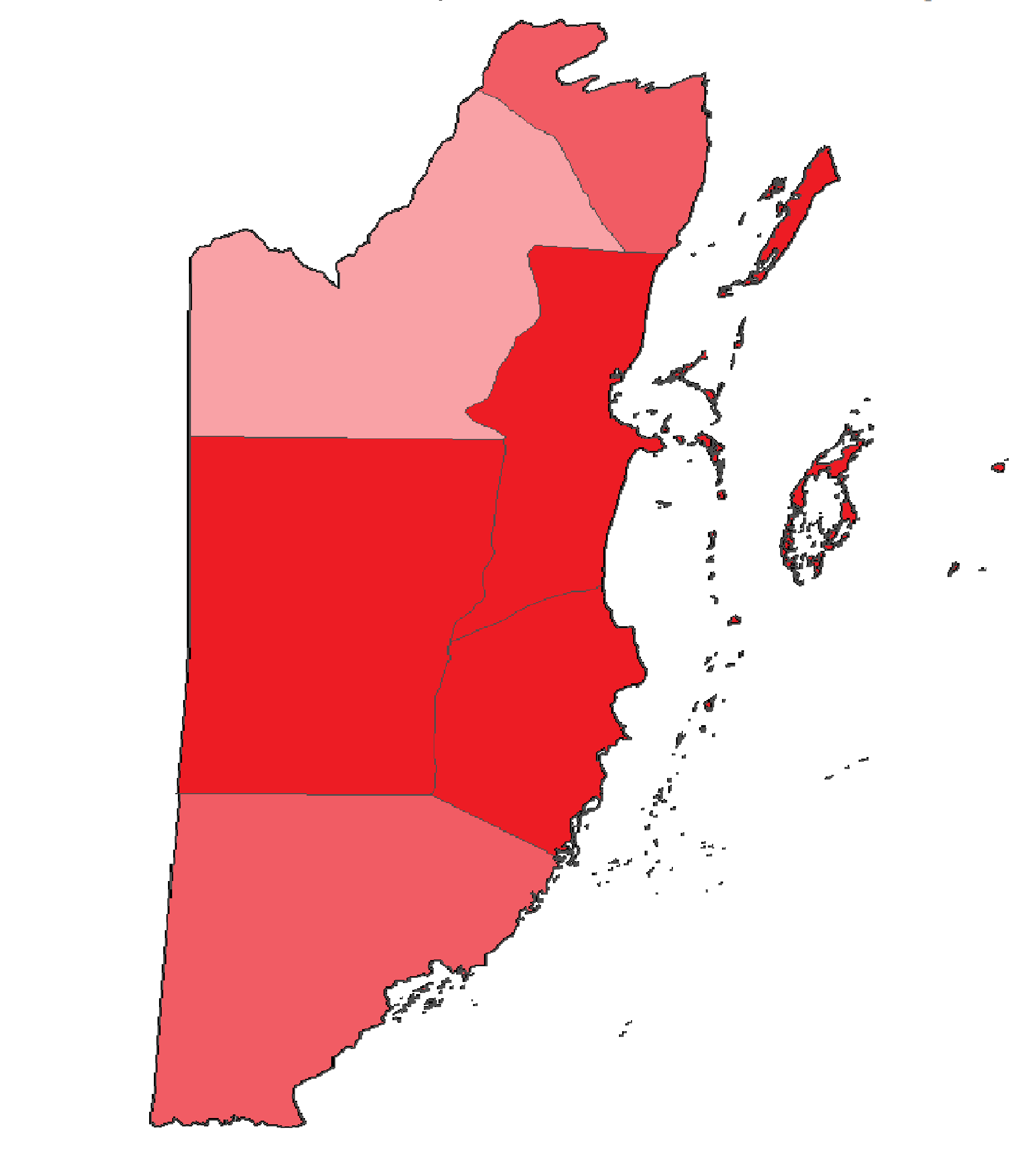 Coronavirus COVID-19 in Belize